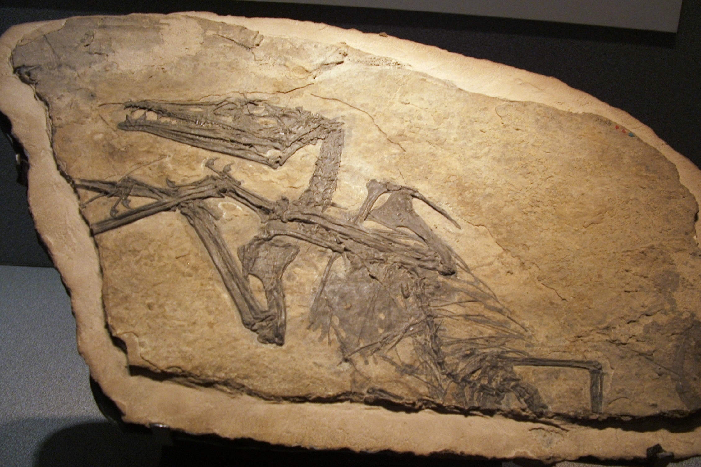 Eudimorphodon ranzii - photo taken in museums of natural science in Bergamo